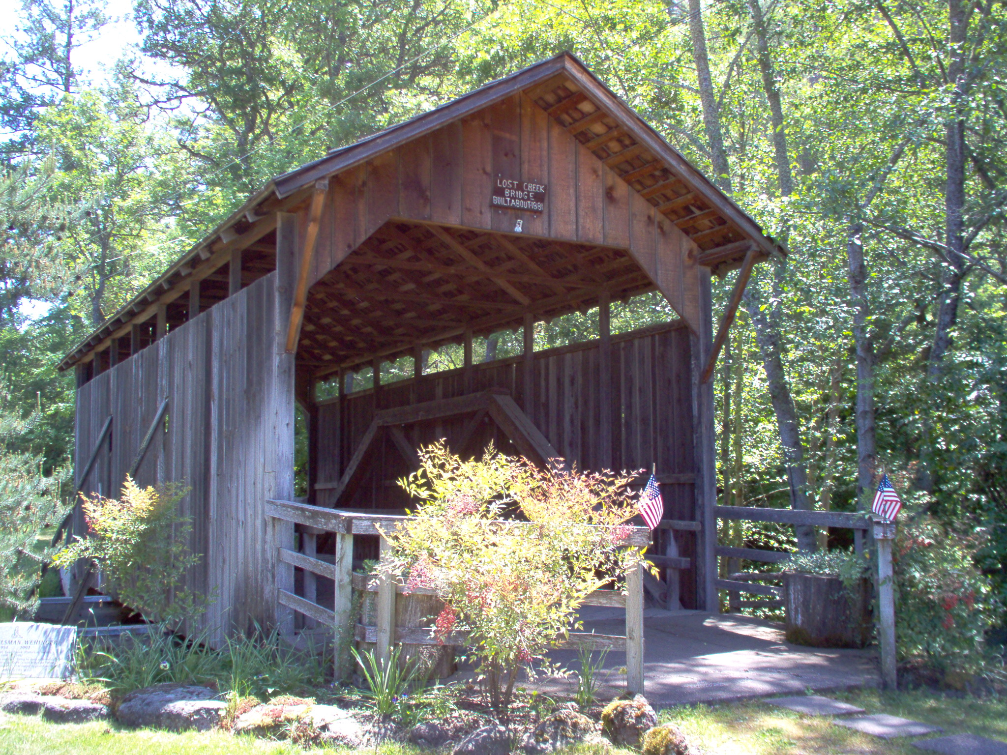 I took this picture myself. Zab 03:24, 25 May 2007 (UTC)